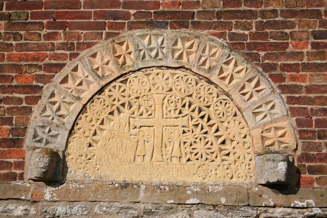 Hawksworth tympanum: early 12th century Norman tympanum re-set in the tower of the Church of England parish church of St. Mary and All Saints, Hawksworth. A cross flanked by two primitive figures and the inscription "Gauterus et uxoreius cecilina fecerunt facere ecclesiam istam"